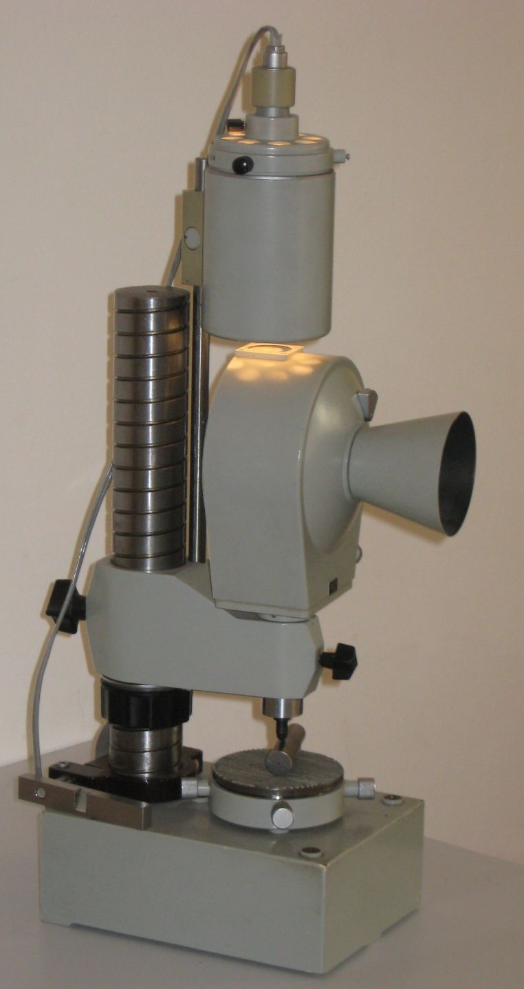 Optimetr, made in GDR by Carl Zeiss Jenna circa 1975